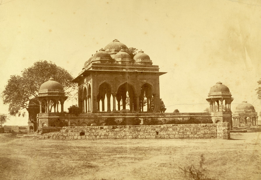 Photograph entitled, "No. 9. Mosque at Meerut said to be the principal resort of the mutineers," taken in 1858 by Major Robert Christopher Tytler and his wife, Harriet, in the aftermath of the Uprising of 1857. The picture is of a mosque in Meerut where the uprising began.